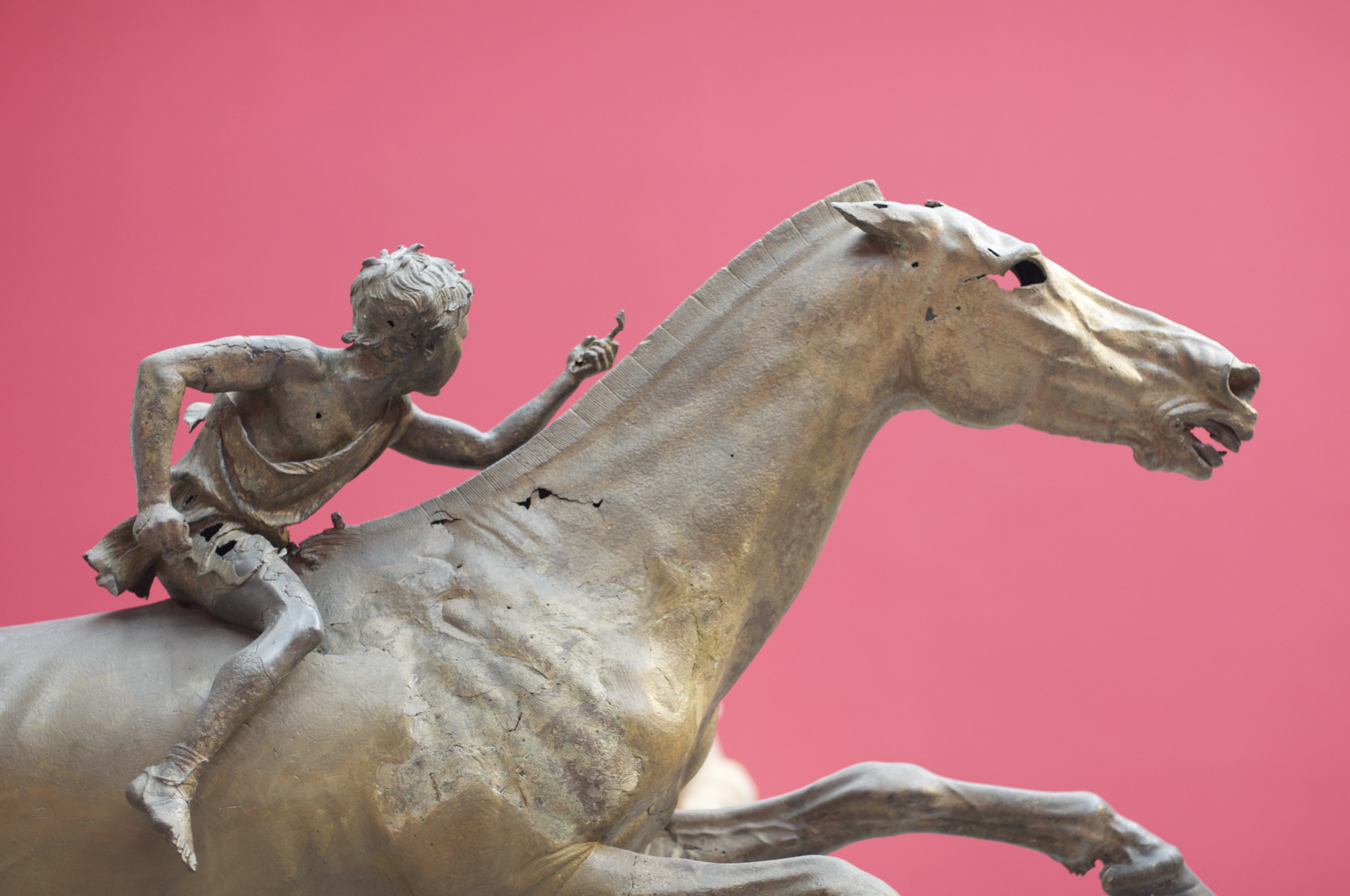 Jockey of Artemision